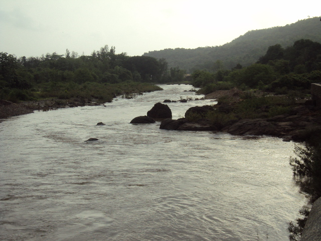 kajali river in sakharpa